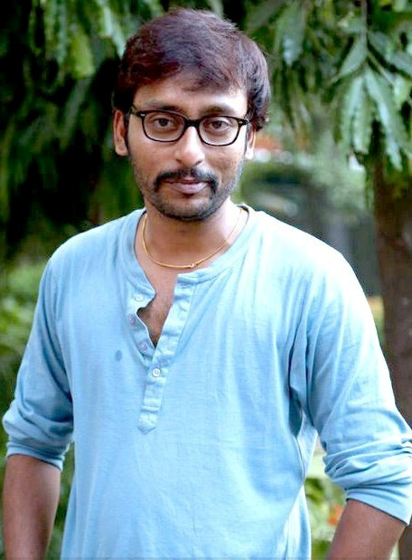 RJ Balaji at Vadacurry Movie Press Show